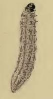 Stainton’s Natural History of the Tineina (1855–1873): Caryocolum tricolorella larva